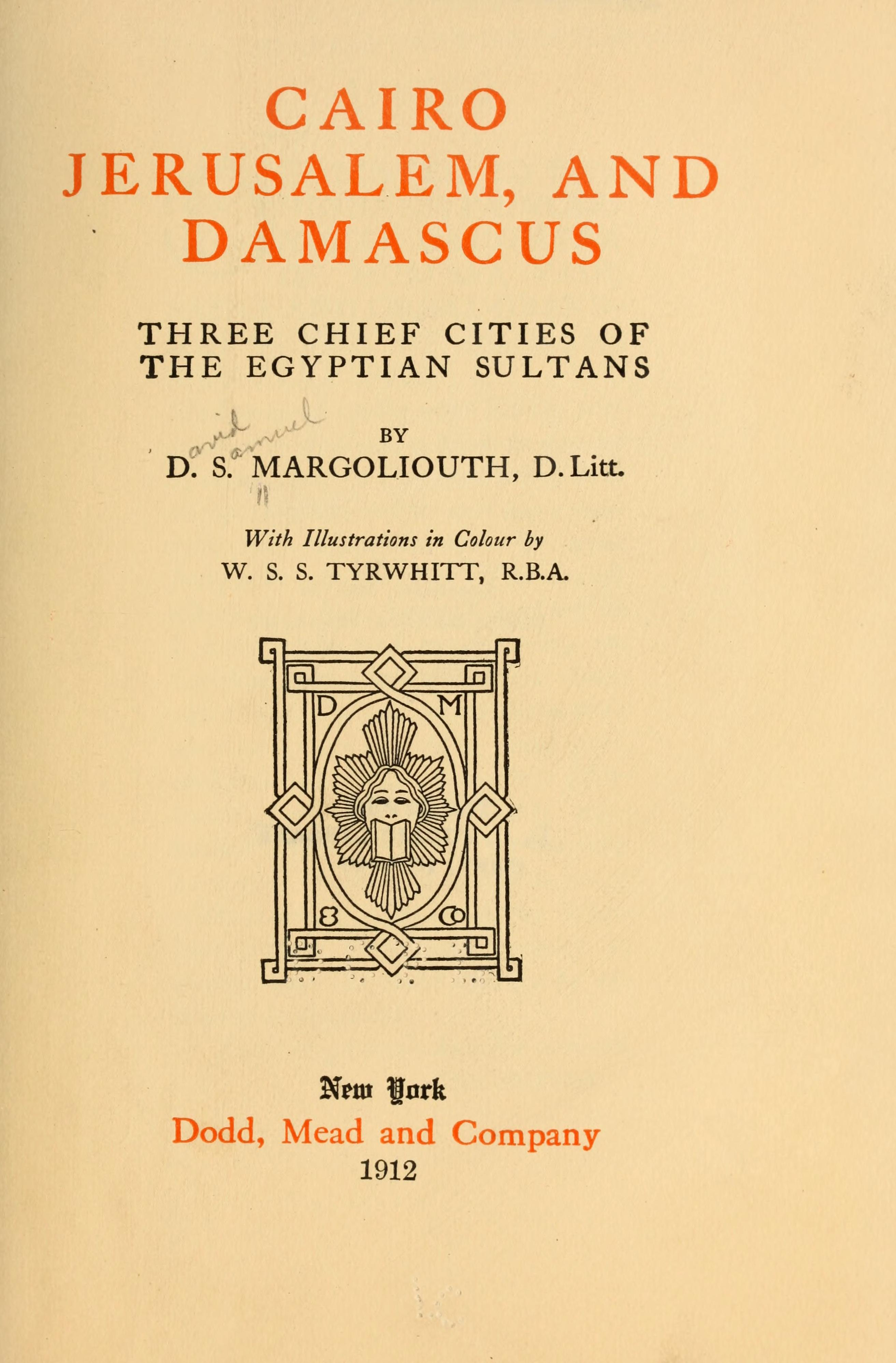 Cairo, Jerusalem, and Damascus by David Samuel Margoliouth.